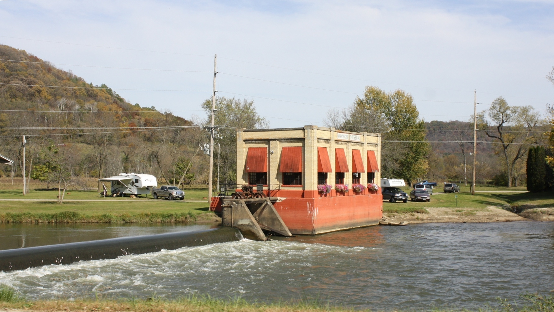 The Kickapoo River Museum on the Kickapoo River in Gays Mills, Wisconsin along Wisconsin Highway 171.